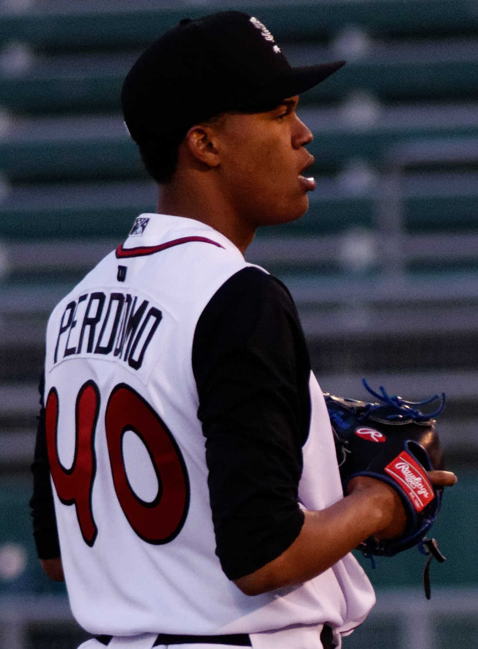 Ángel Perdomo pitching for the Lansing Lugnuts on April 11, 2016